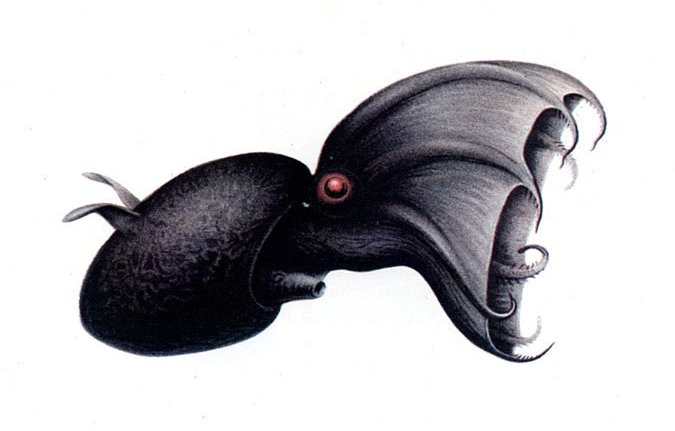 A Vampire Squid (Vampyroteuthis infernalis) drawn by Carl Chun, 1911.